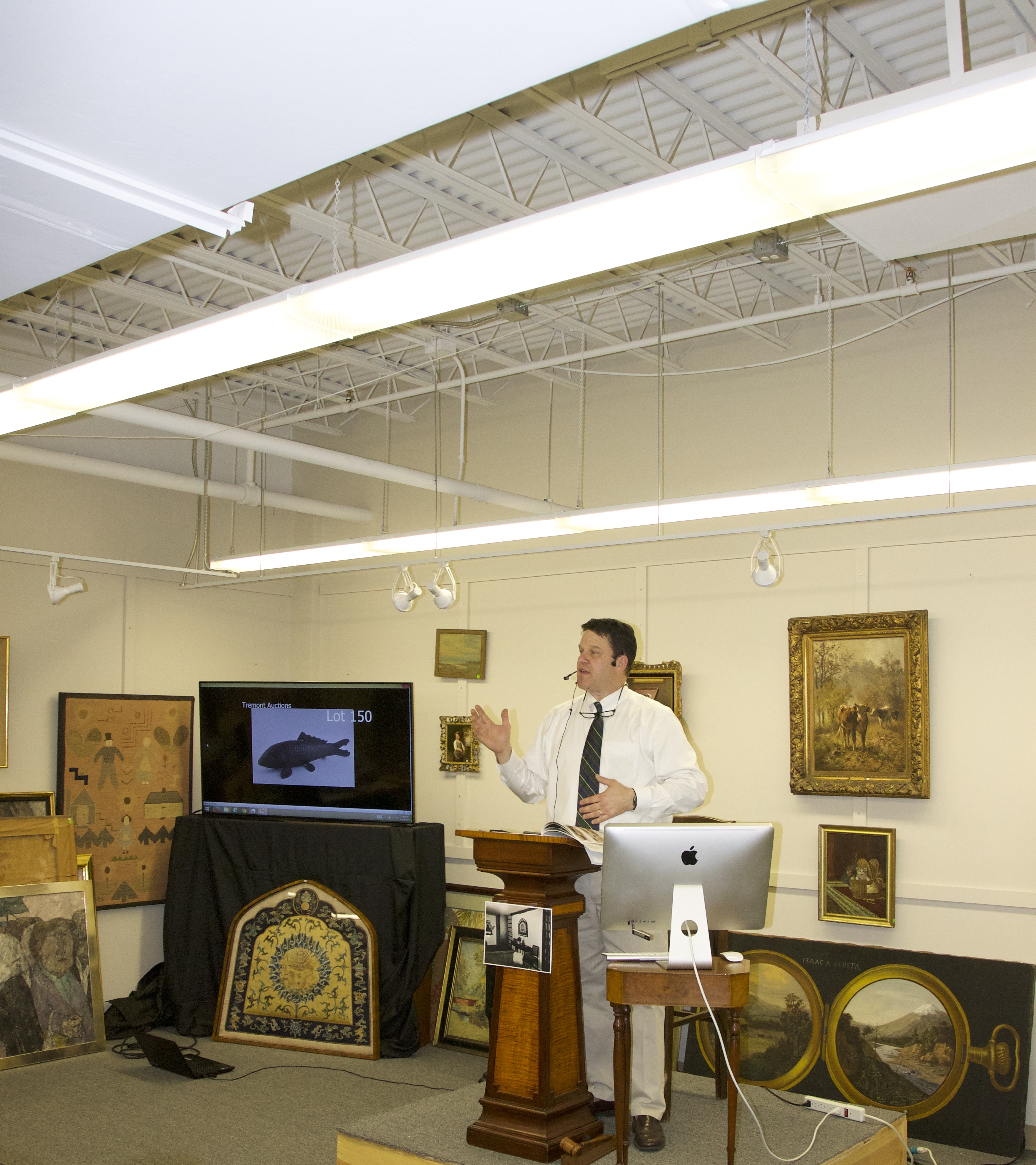 An art auction occurring in Newton Massachusetts, on 10/15/17